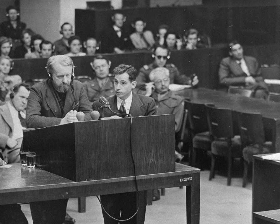 See title